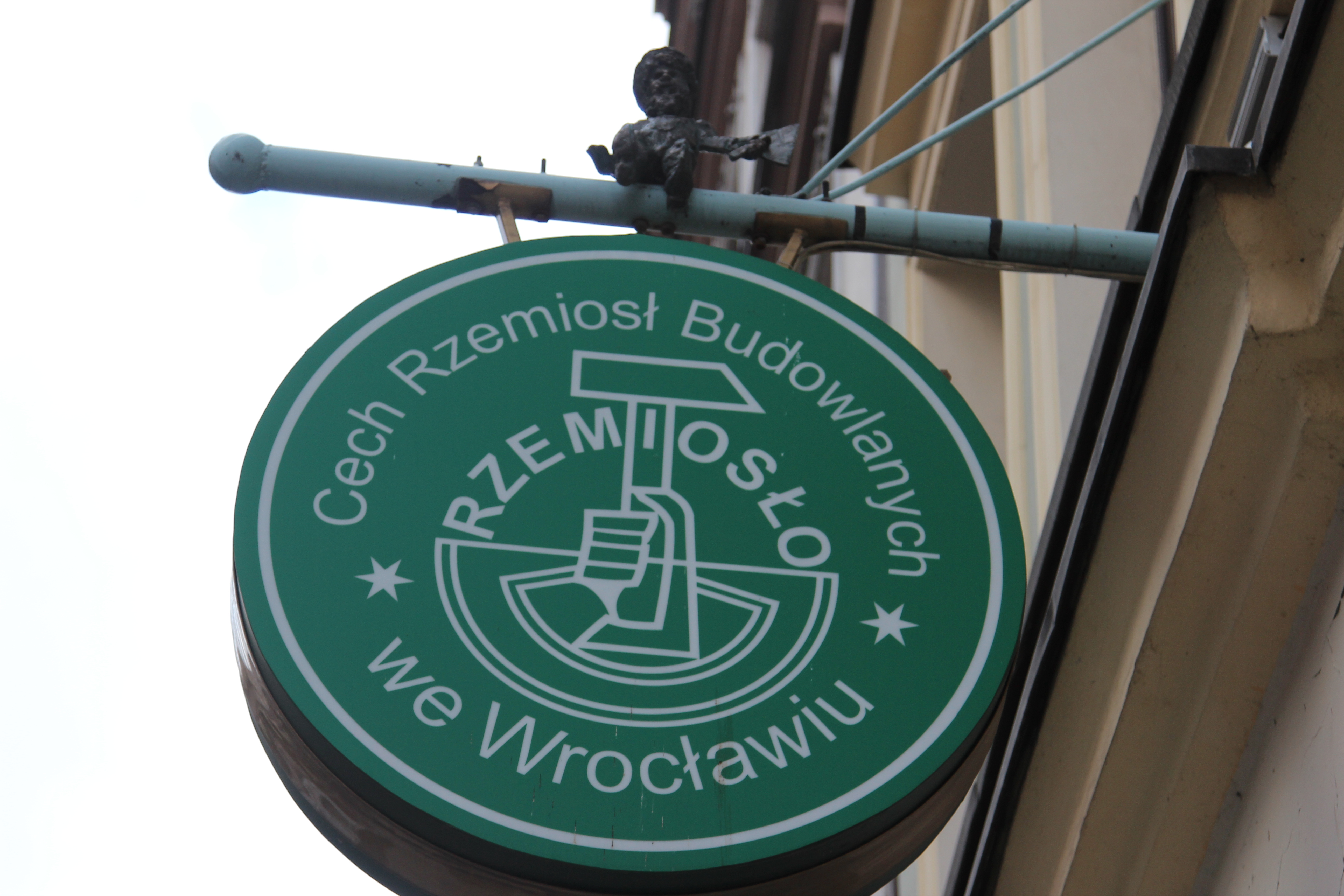 Bricklayer (Murarz) dwarf in Construction Crafts Guild on św. Antoniego 23